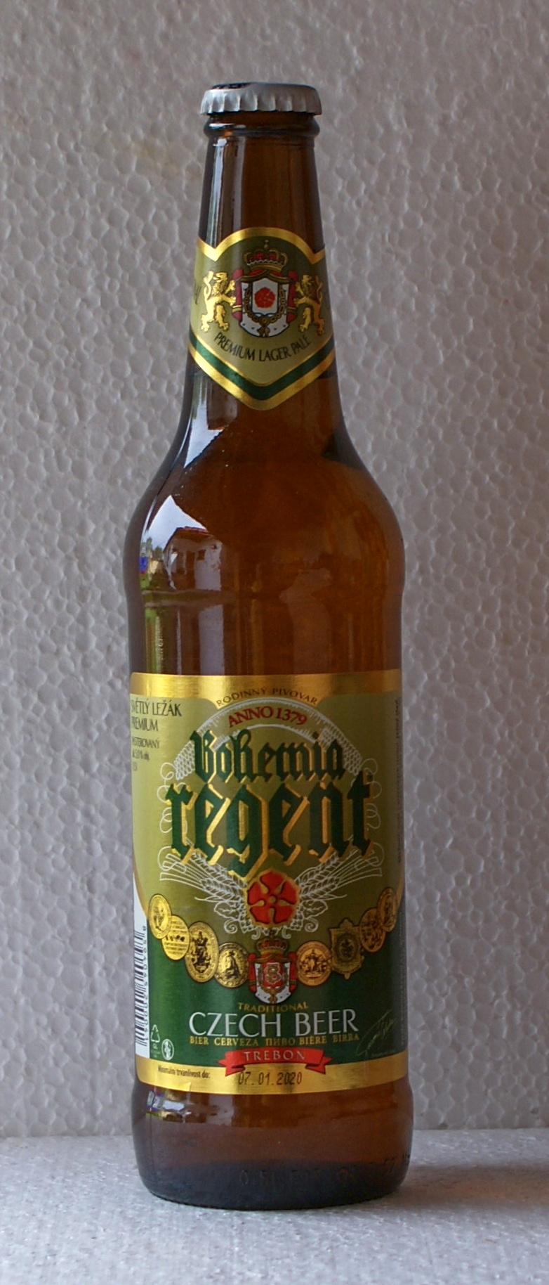 A bottle of Regent Lager beer from Třeboň, Czech Republic